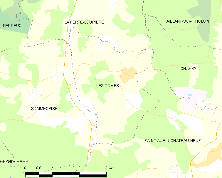 Map of French municipality Les Ormes